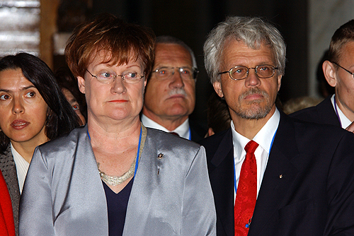 ST ISAAC’S CATHEDRAL, ST PETERSBURG. Finnish President Tarja Halonen and her husband, Pentti Arajärvi. In the background, centre – Czech President Václav Klaus.